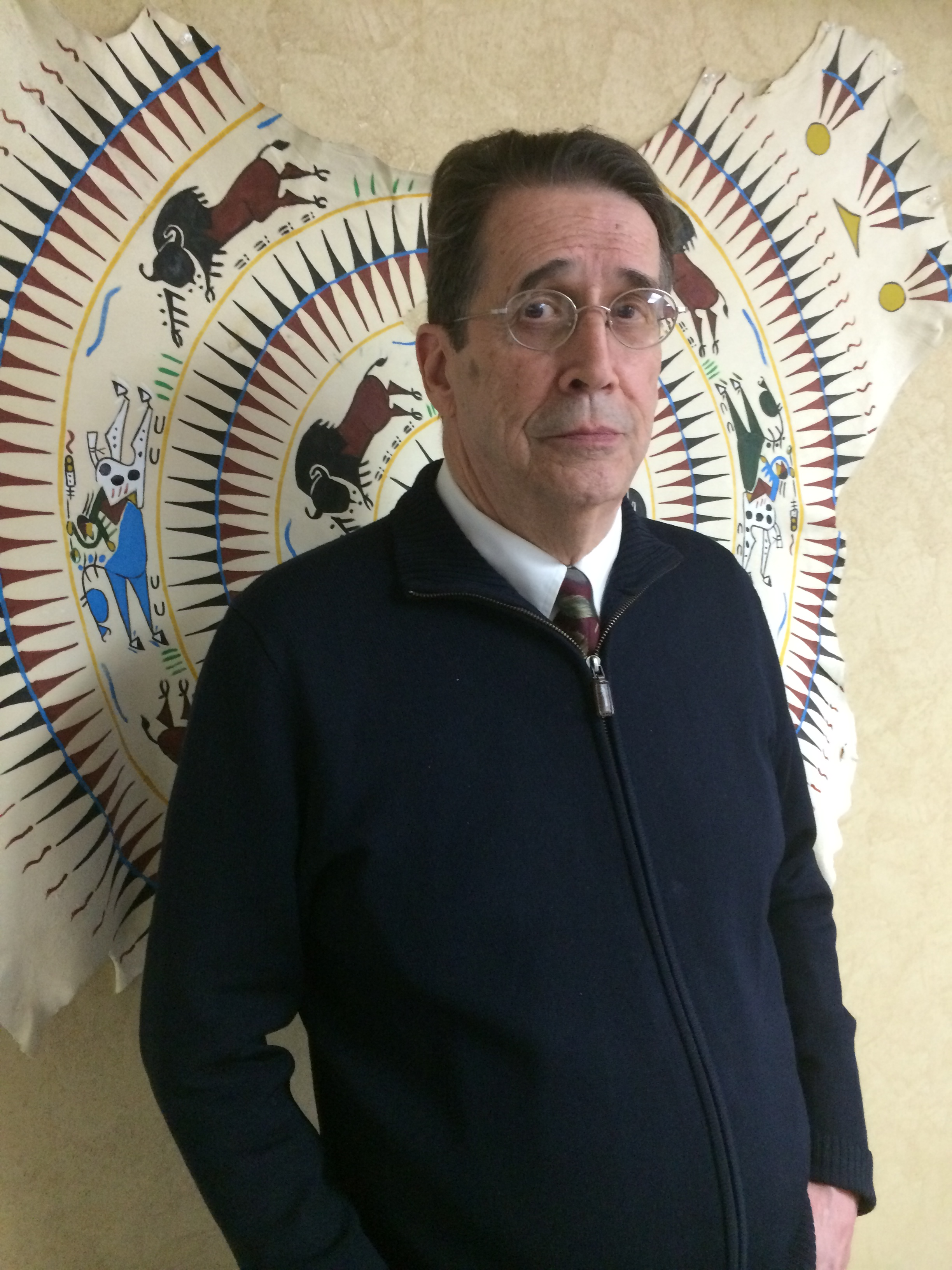 Frank Pommersheim 2014